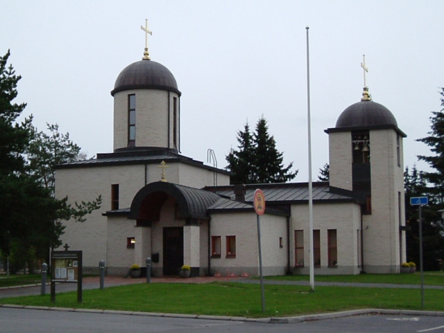 Apostle John the Theologian Church, Pori, Finland